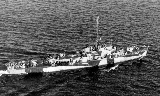 USS Kenneth M. Willet (DE-354) on September 11, 1944, 30 miles east of Cape Cod wearing camouflage 32/3D. Photo taken by a blimp from squadron ZP-11.